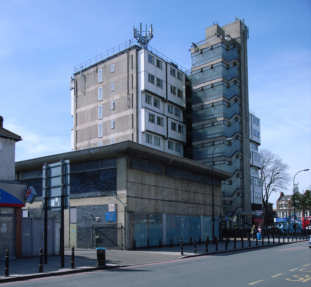 Eros House (1960-63) by Rodney Gordon of Owen Luder and Partners. Photos taken on a Twentieth Century Society walk round Catford and Lewisham in South London on 27th April 2008.